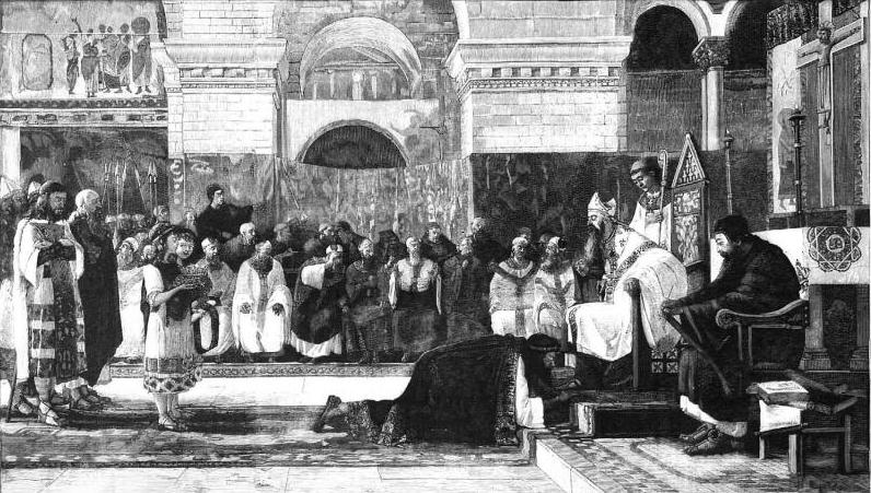 El rei Sisenand en el Concili IV de Toledo, presidit per Sant Isidor (1899), painting of Marian Vayreda (not existent; burnt in 1936)